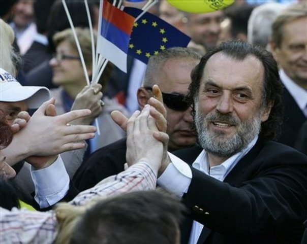 Vuk Draskovic